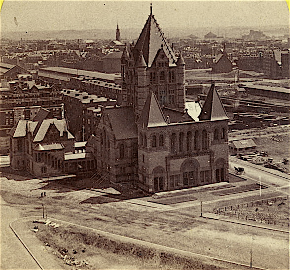 Accession No.: 06_11_000040 Title: Trinity Church Series: America Illustrated. Boston & Suburbs Local Subject: Churches Subject: Boston (Mass.) Date of Creation: ca. 1875 Format: Derived from Sterograph BPL Department: Print